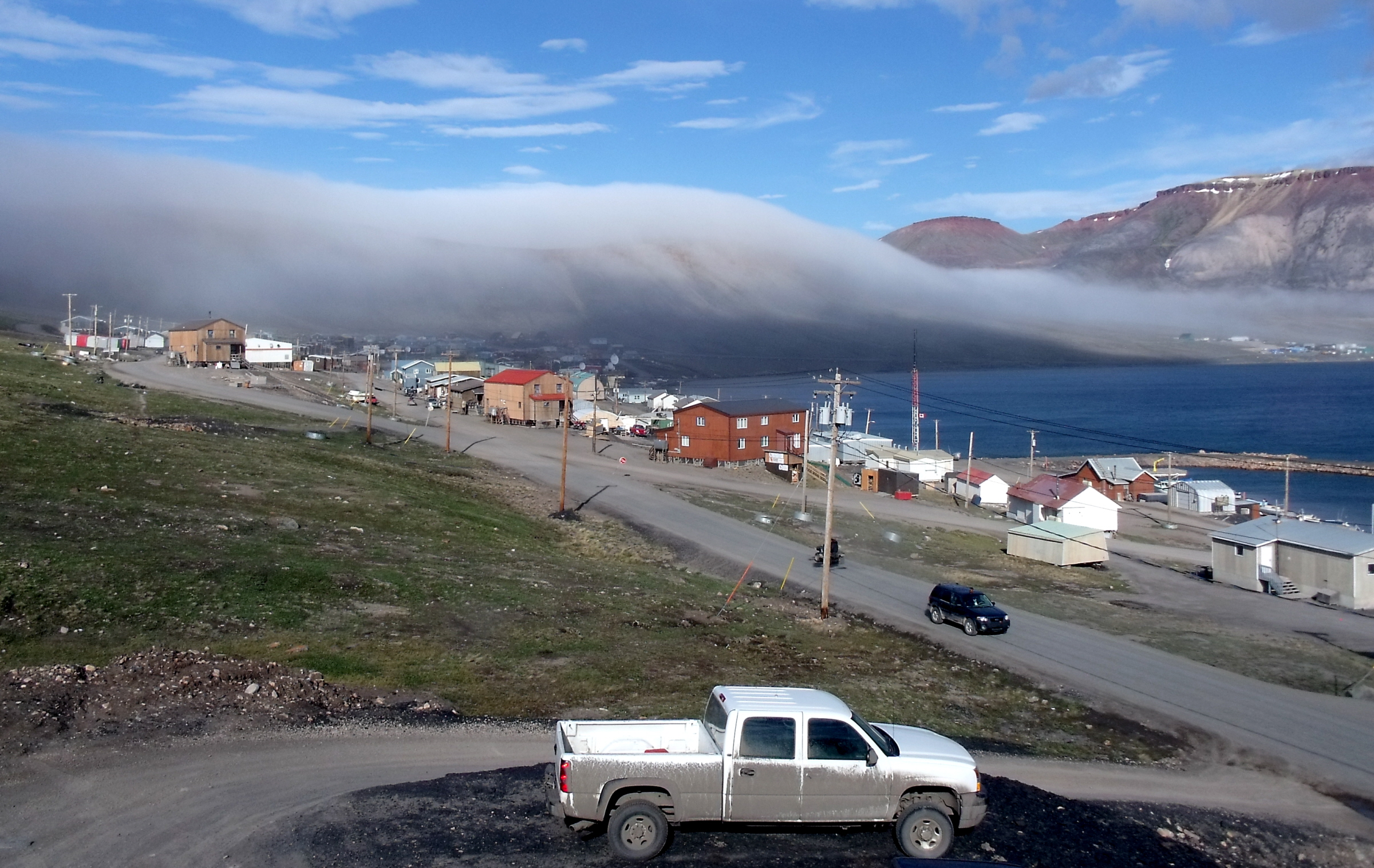 Day after day blankets of fog pour over the hills at this time of year. View from the hotel window.